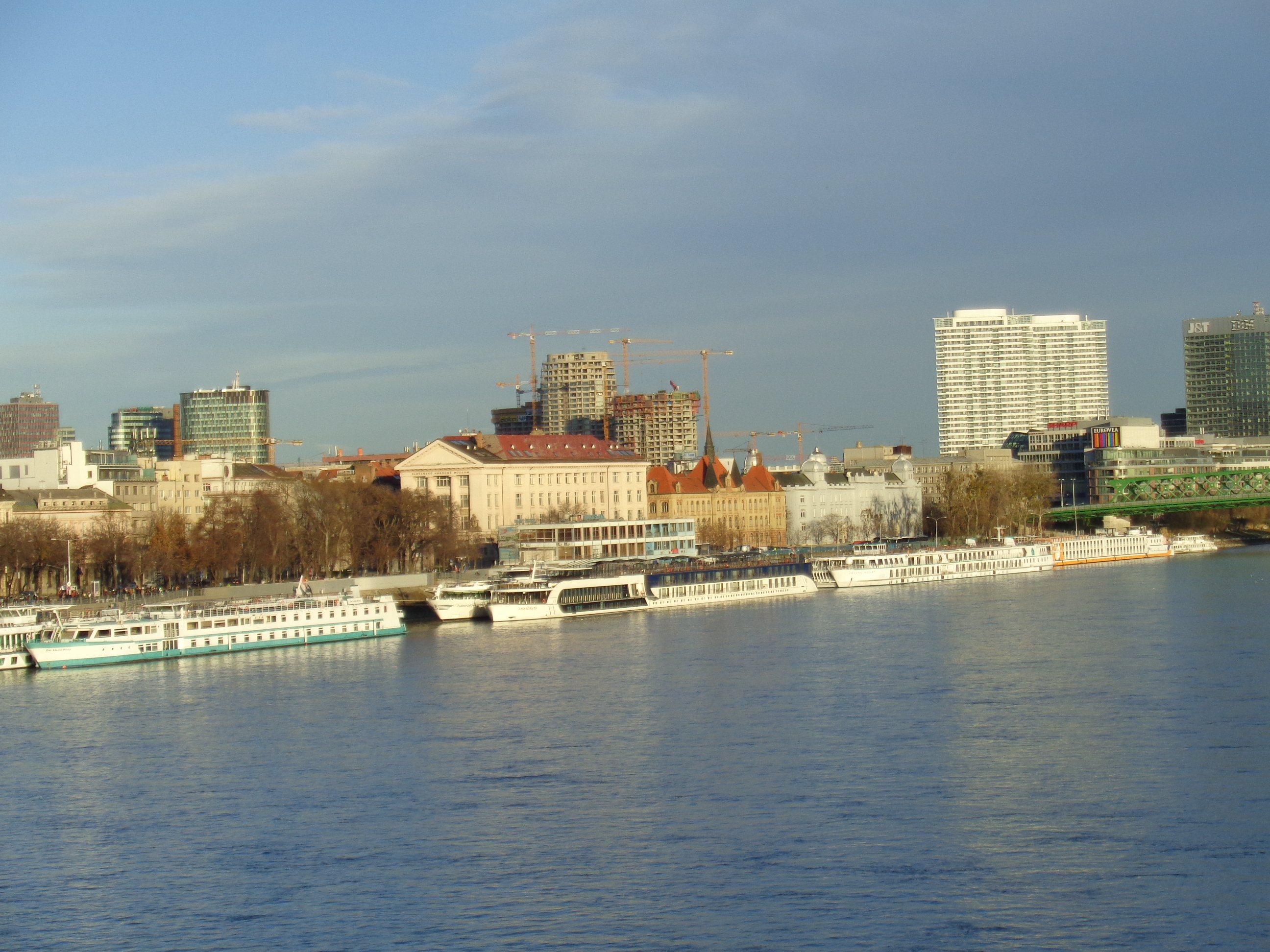 Bratislava, Sloavakia - view of the Danube River